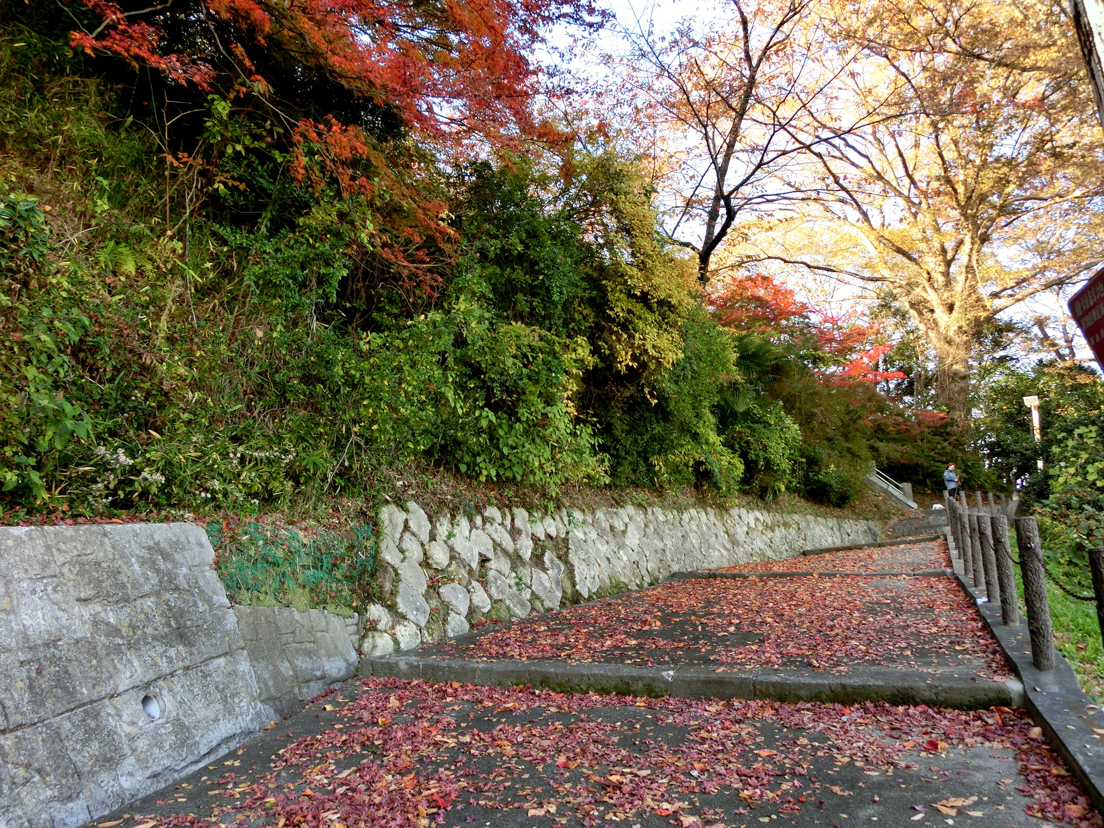 Matsugaoka Park in Iwaki City, Fukushima Prefecture, Japan